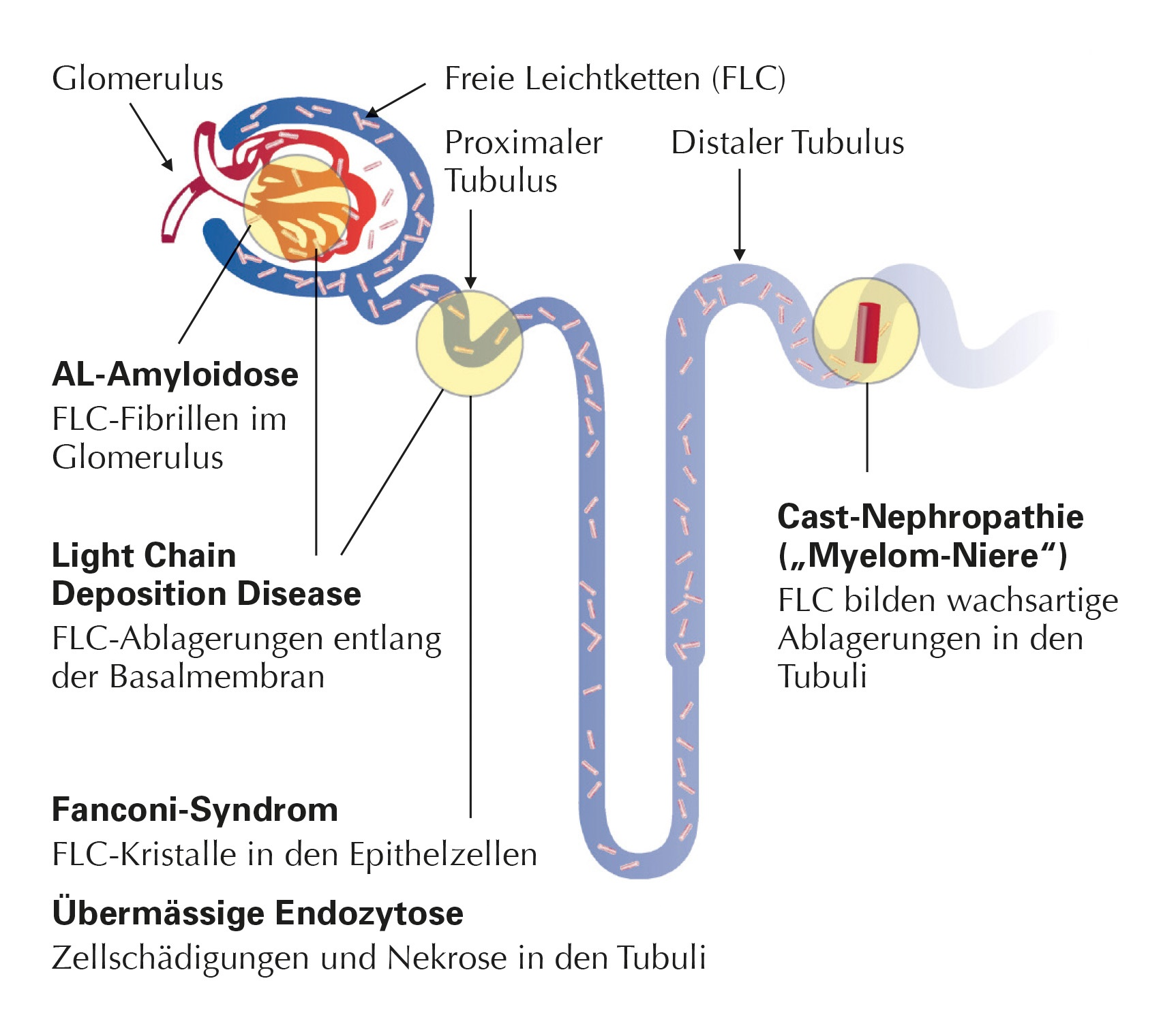 Renal injury caused by FLCs.